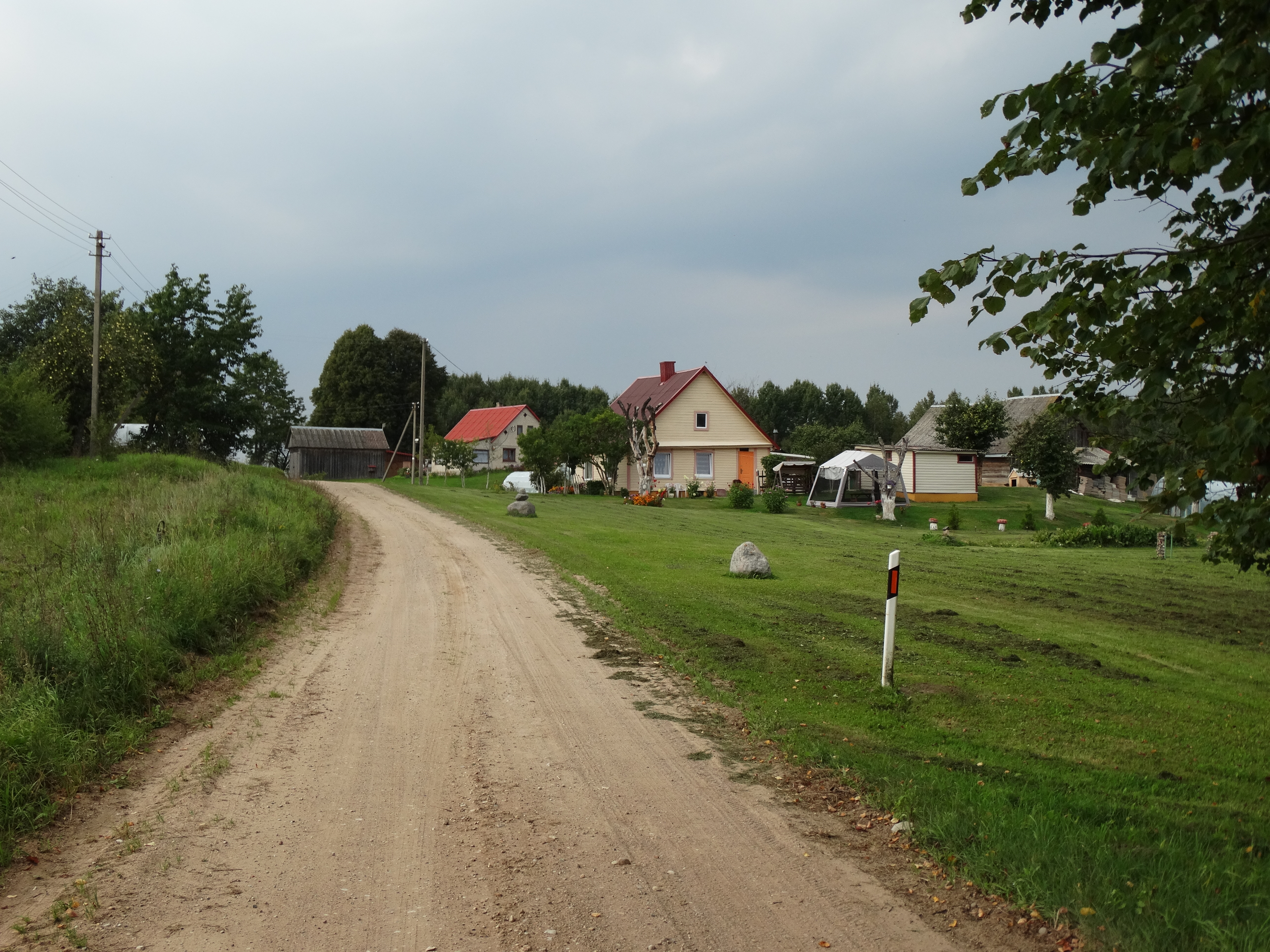 Raistiniškės, Zarasai district, Lithuania